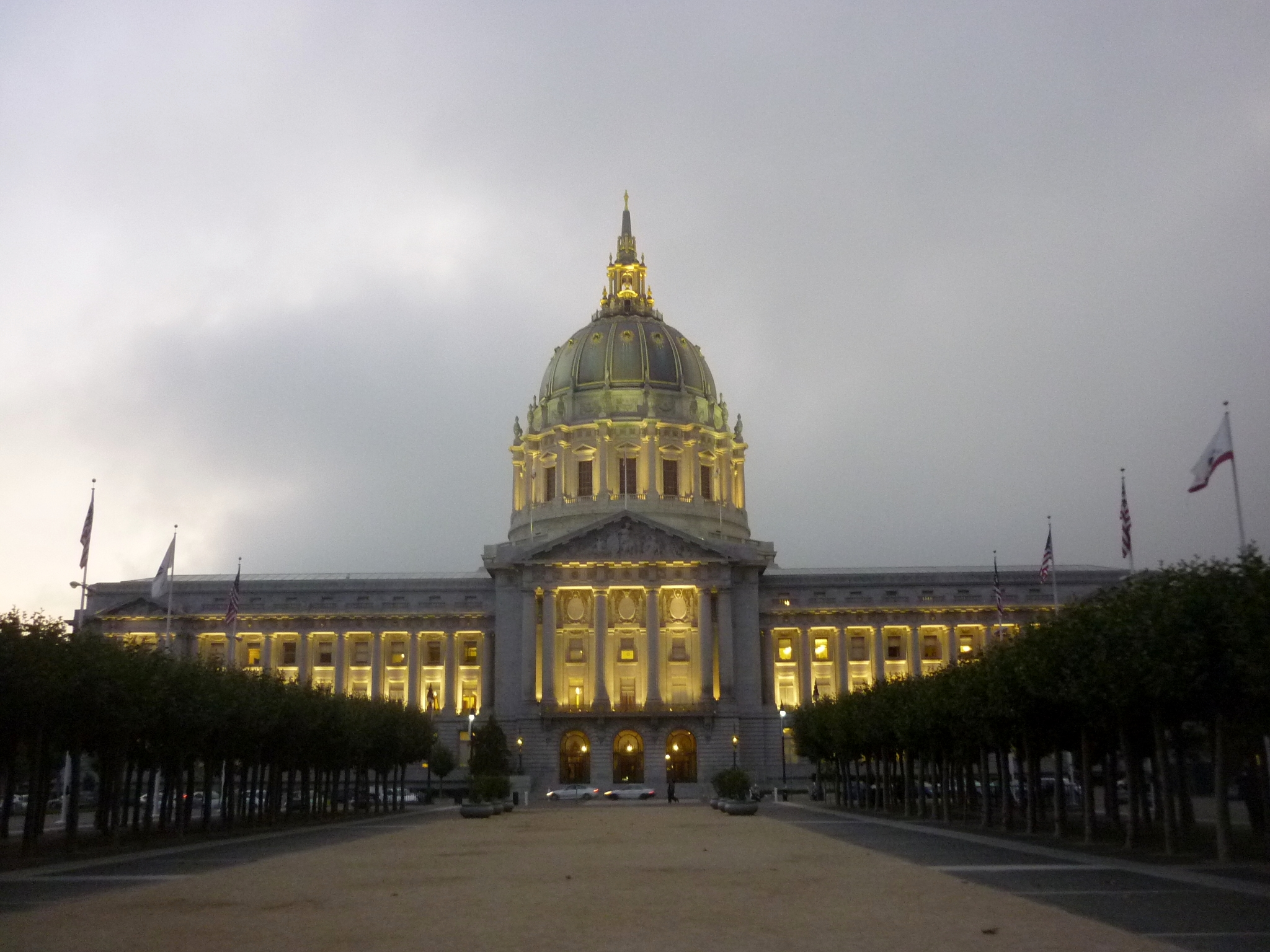 City Hall of San Francisco at evening